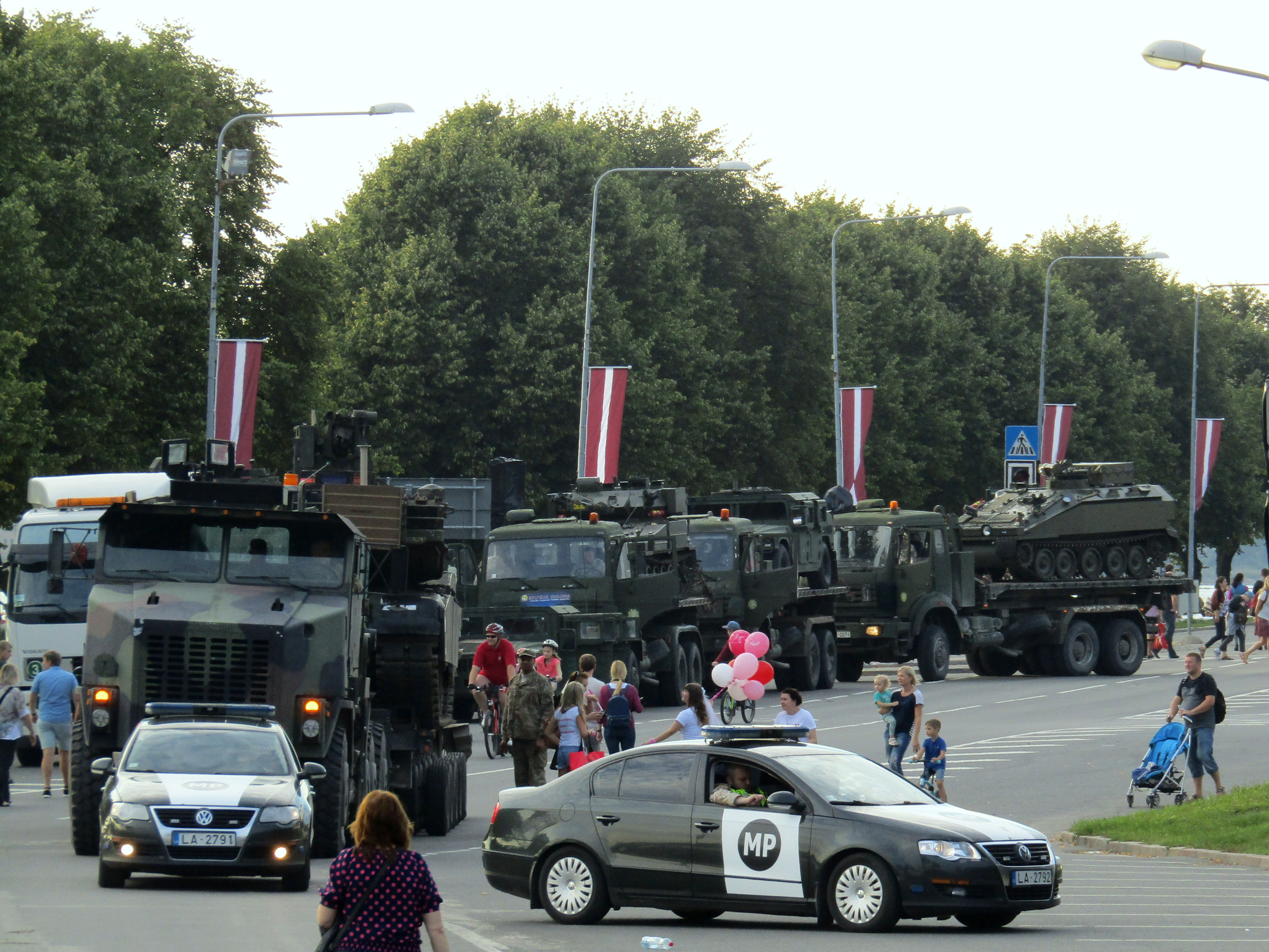 Military vehicles leaving an event celebrating 25 years of the Latvian Armed Forces